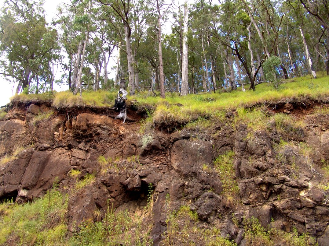 Binna Burra. Photograph by User:Johncatsoulis John Catsoulis, Binna Burra. Photograph by John Catsoulis